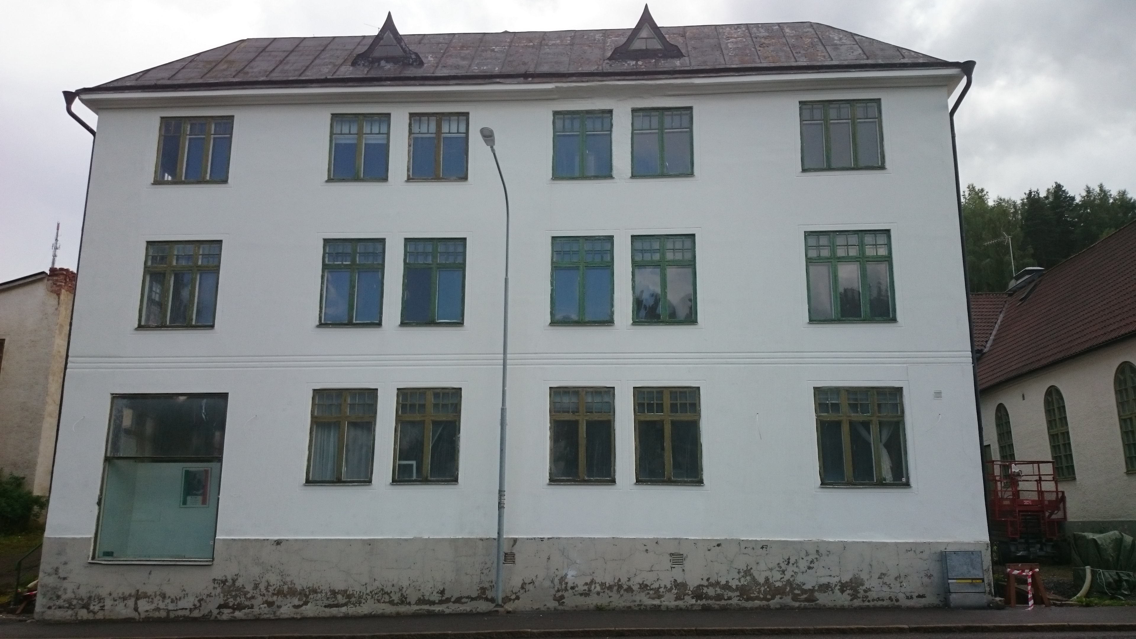 Nils Liedholms childhood home in Valdemarsvik